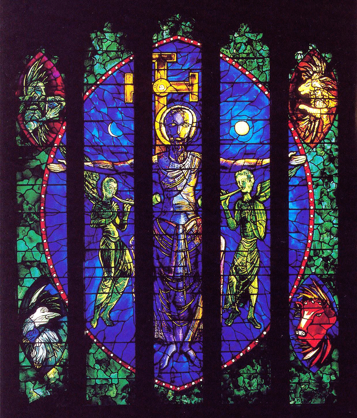 East window in Chapel of St John, Lichfield, designed by John Piper